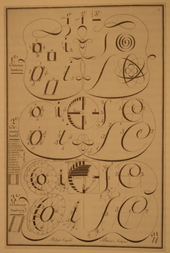 François-Nicolas Bedigis, L'art d'écrire (1768)